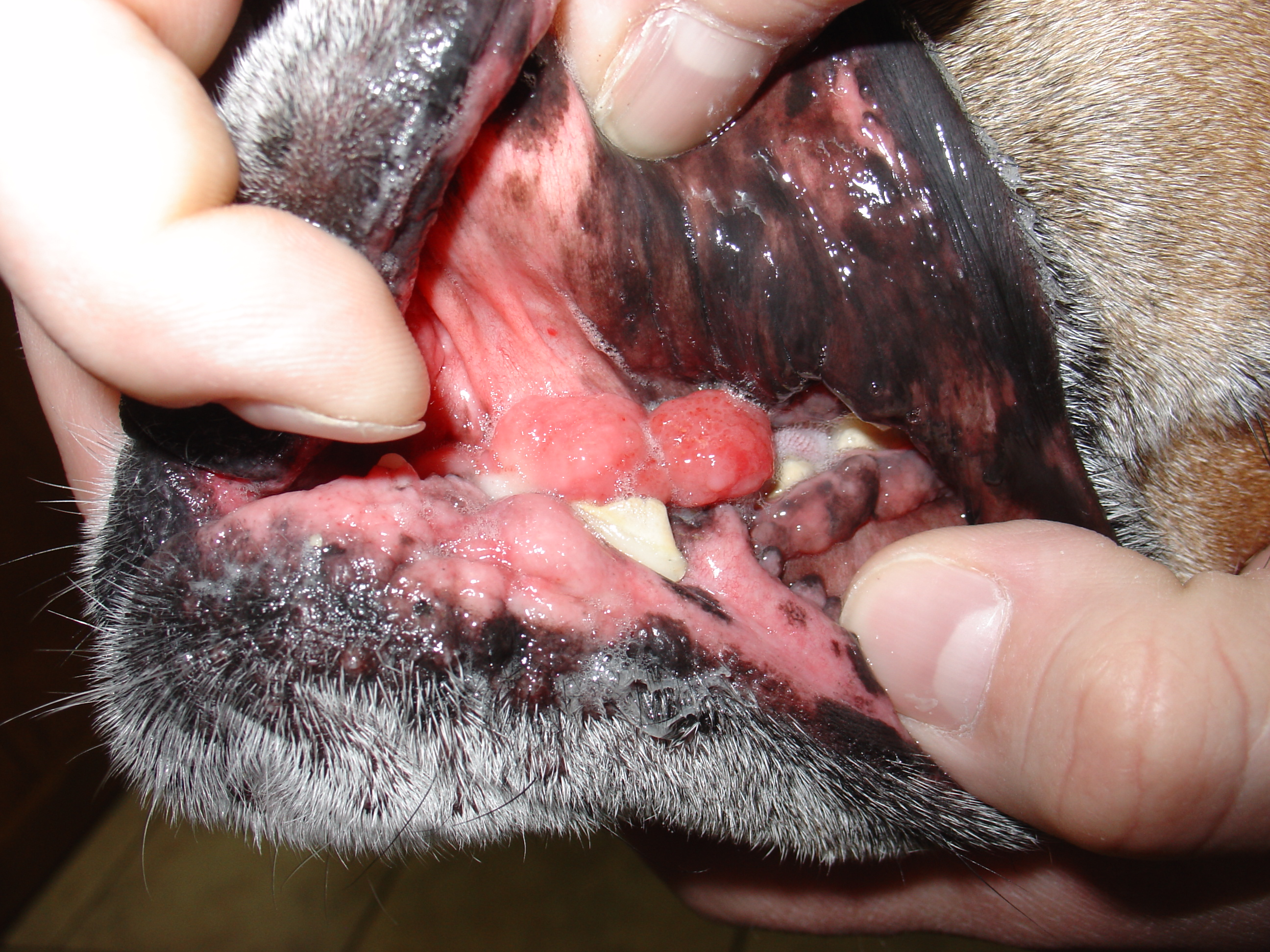 Gingival hyperplasia in a nine year old Boxer dog seen in both the upper and lower gingiva.